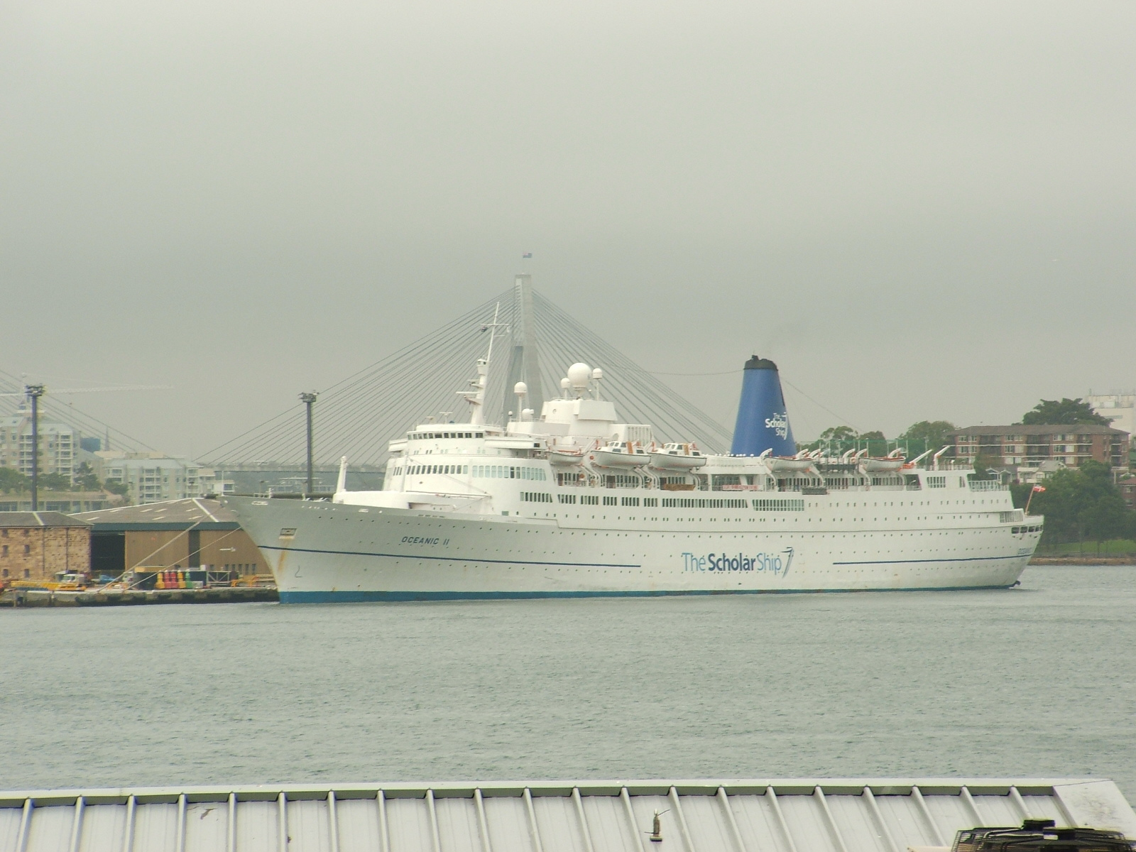 The Scholar Ship docked in Sydney Harbour Information about Oceanic II may be found at IMO 6512354. A ship can change name and flag state through time, but the IMO number remains the same through the hull's entire lifetime. As a result, it can be useful to identify a ship by using the IMO number.